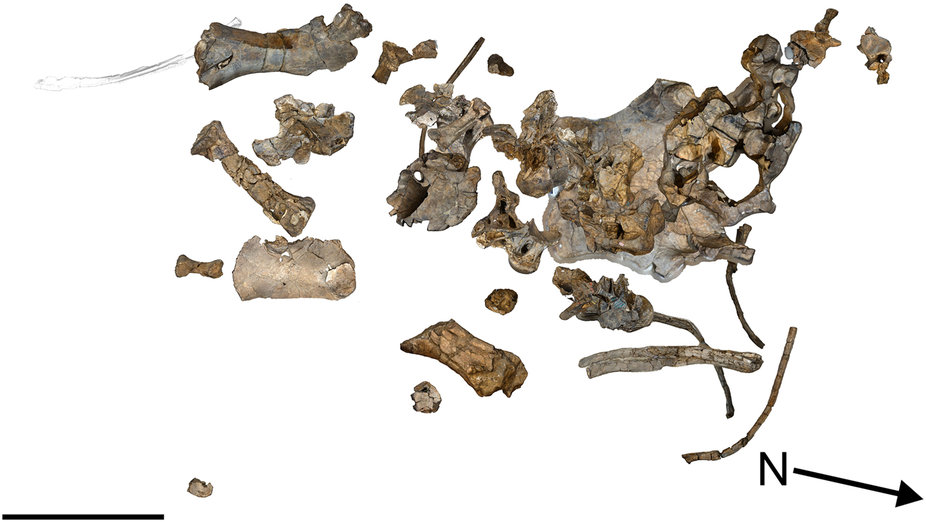 Figure 3: Savannasaurus elliottorum gen. et sp. nov., holotype specimen AODF 660. Type site map showing the approximate association of the bones. Scale bar = 1 m.